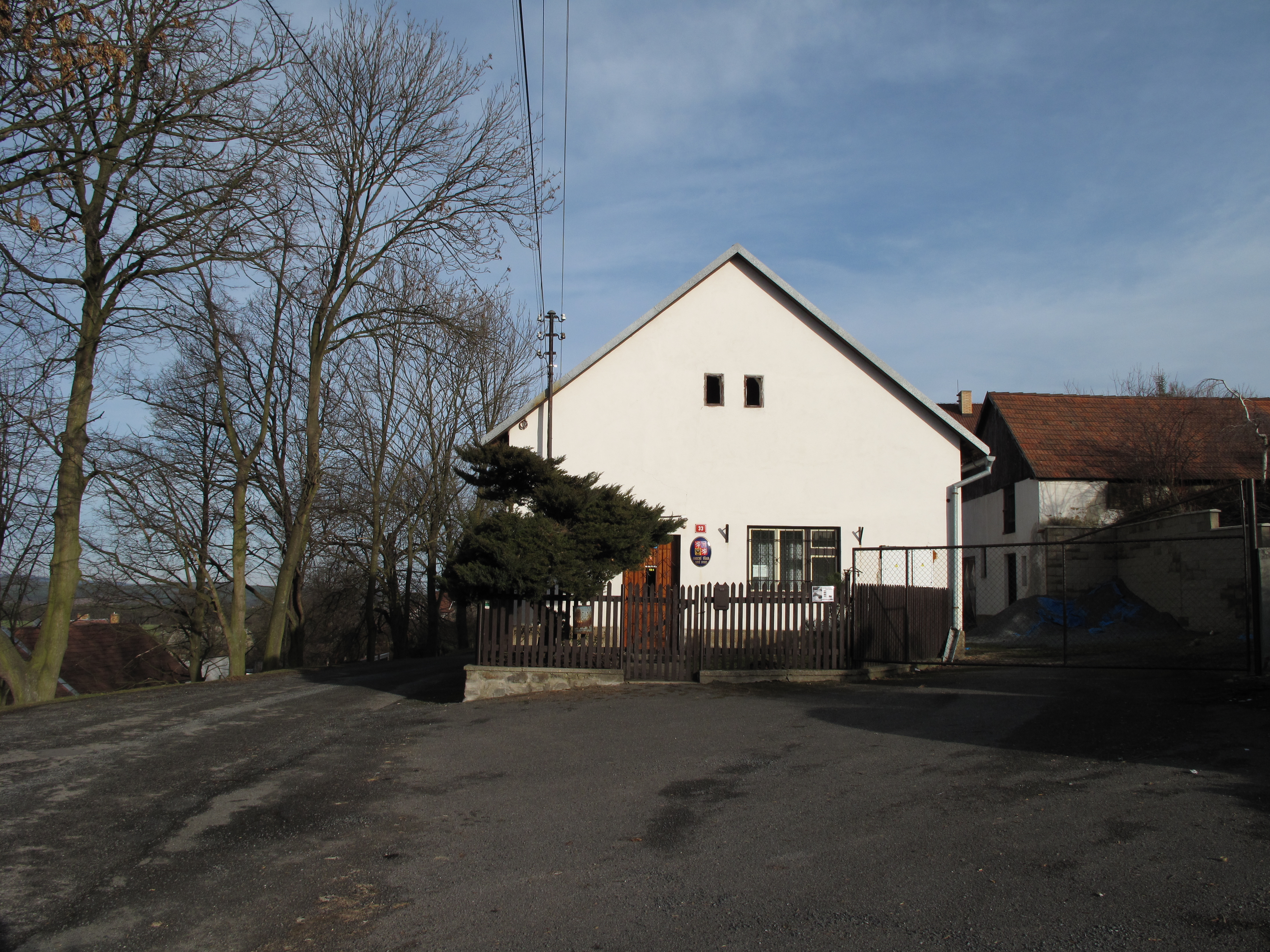 Municipal office in Nové Dvory village, Příbram District, Czech Republic.